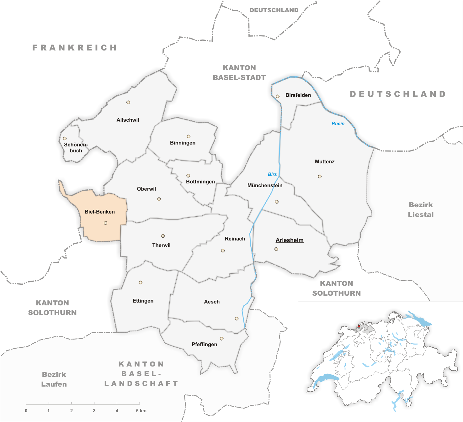 Municipality Biel-Benken